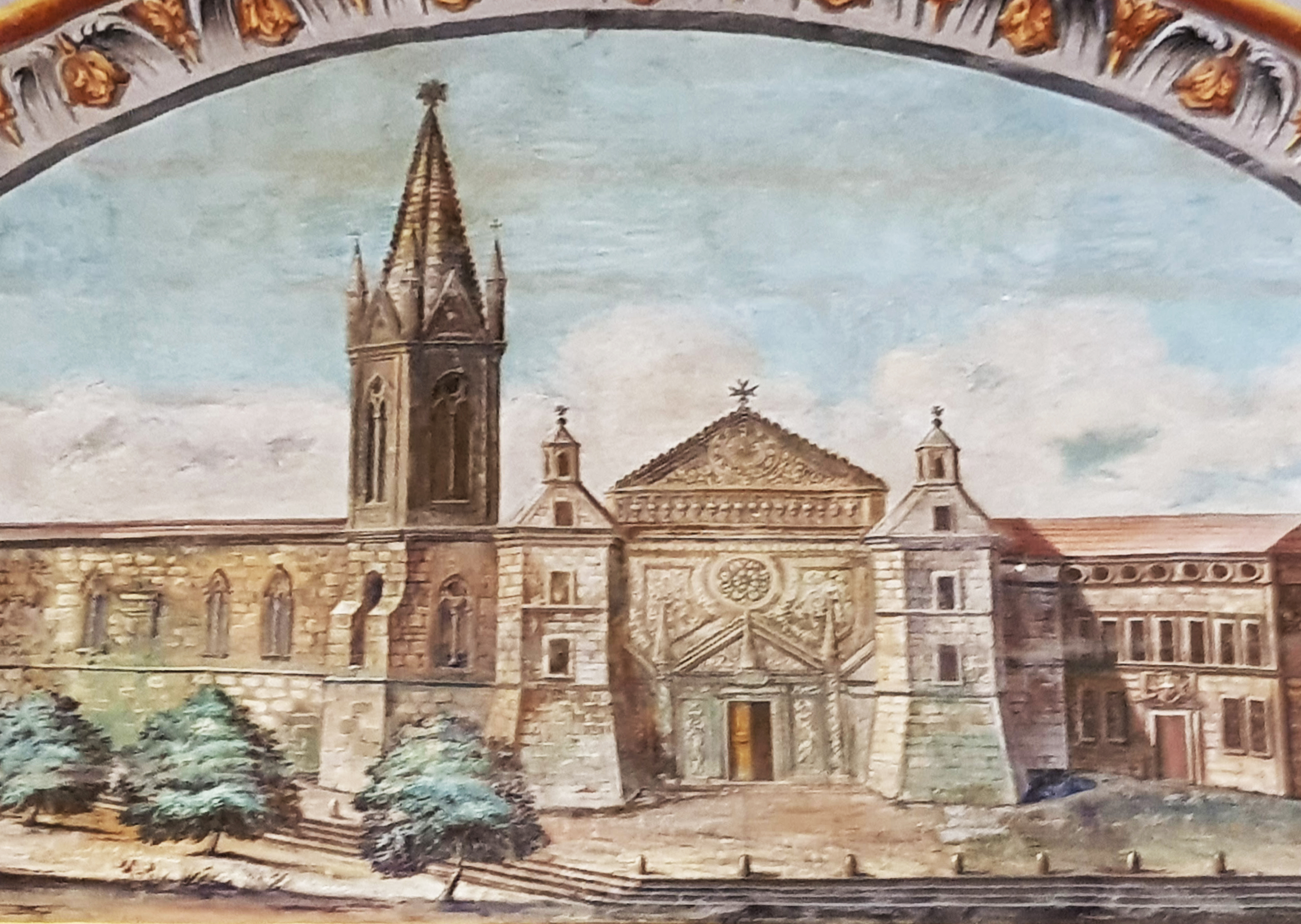 Detail from a fresco inside the Grandmaster's Palace, Valletta, Malta, depicting the old Cathedral of St. Paul in Mdina, Malta before its demolition in the 1690s This media is about Maltese cultural property with inventory number 01134.